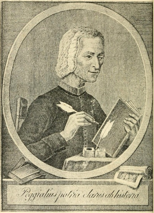 Portrait of the Italian librarian Cristoforo Poggiali. In "Profili di illustri piacentini" by Andrea Corna (Piacenza, 1914)